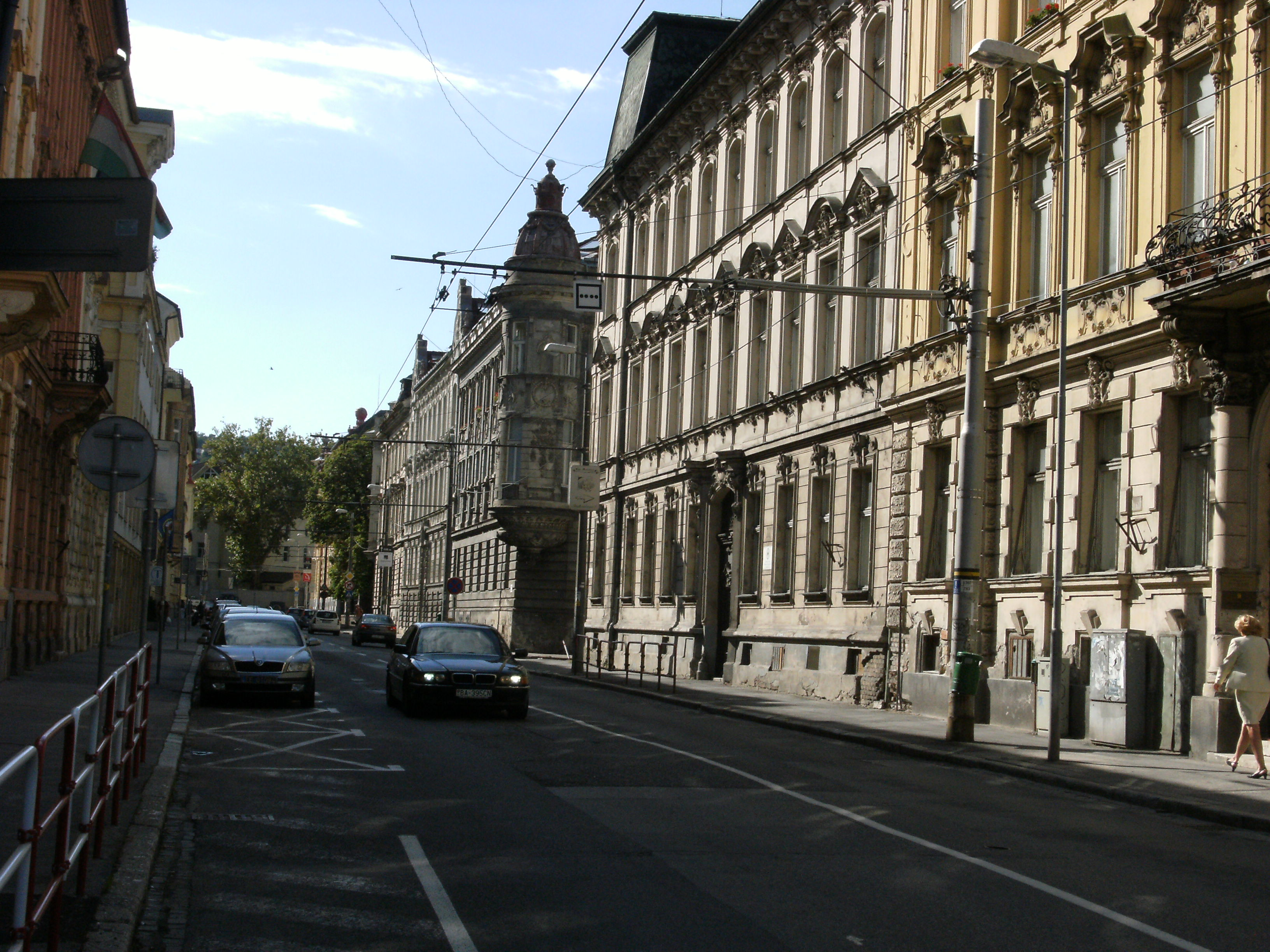 Street and houses in Bratislava.